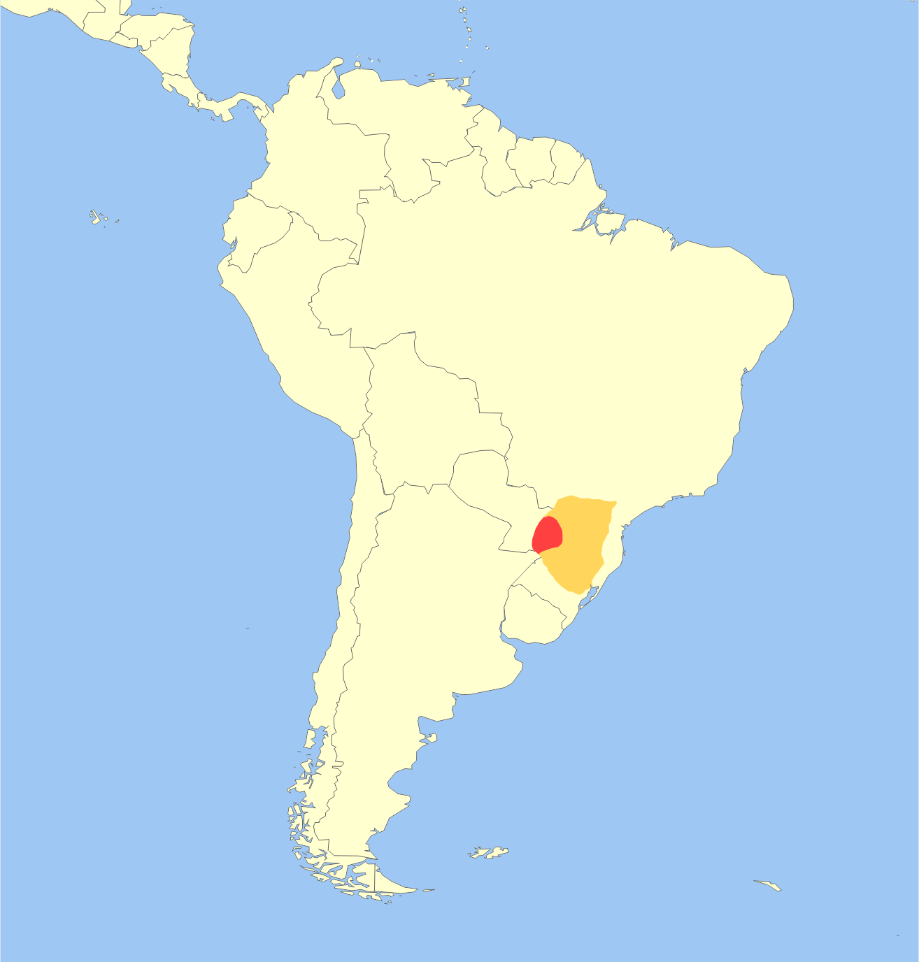 Geographic Distribution of Brazilian Dwarf Brocket. Extant Probably extant